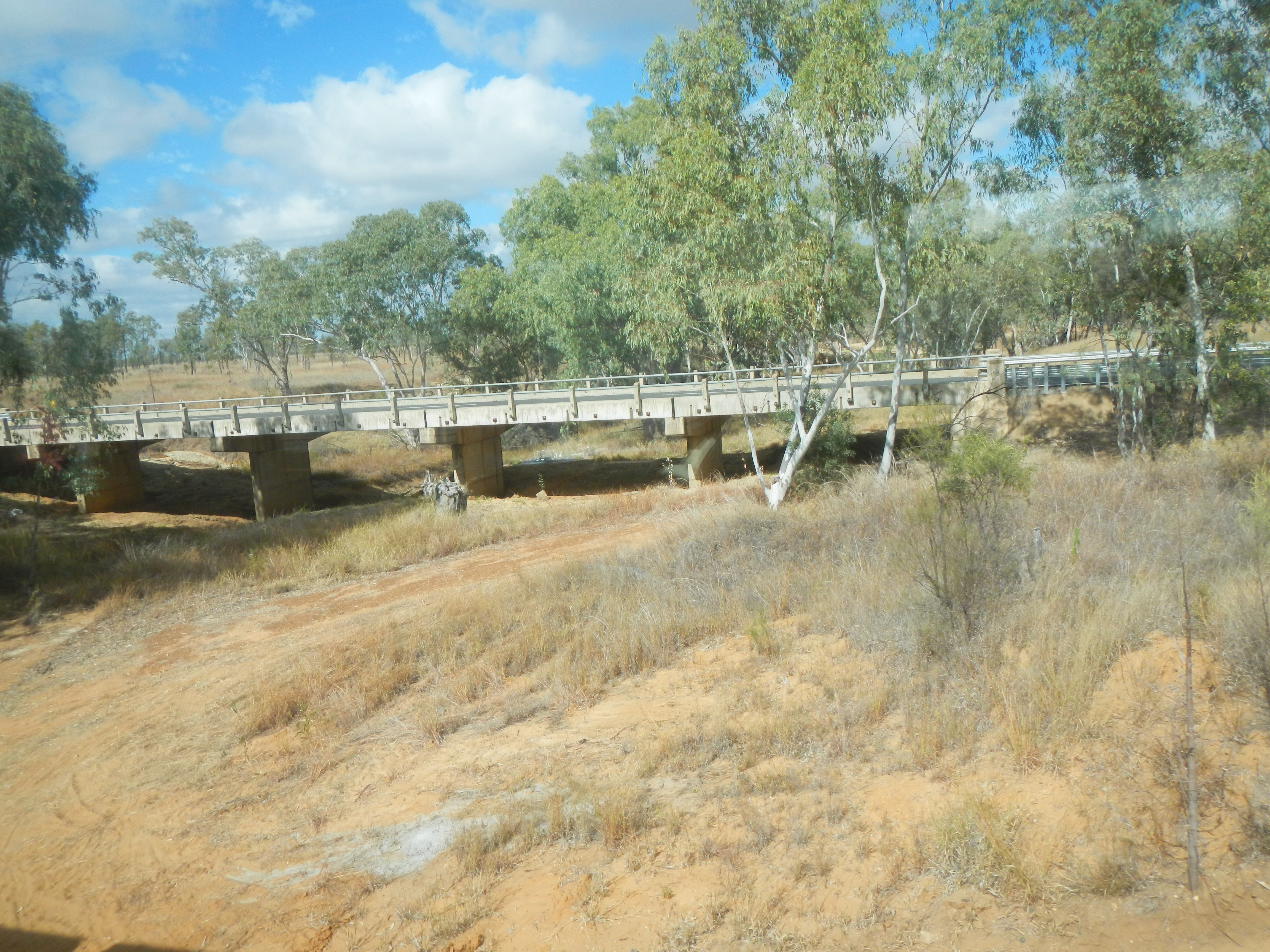 Road Bridge over Tallarenha Creek